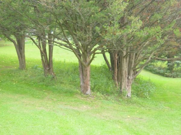 Pass Arboretum - groundcover